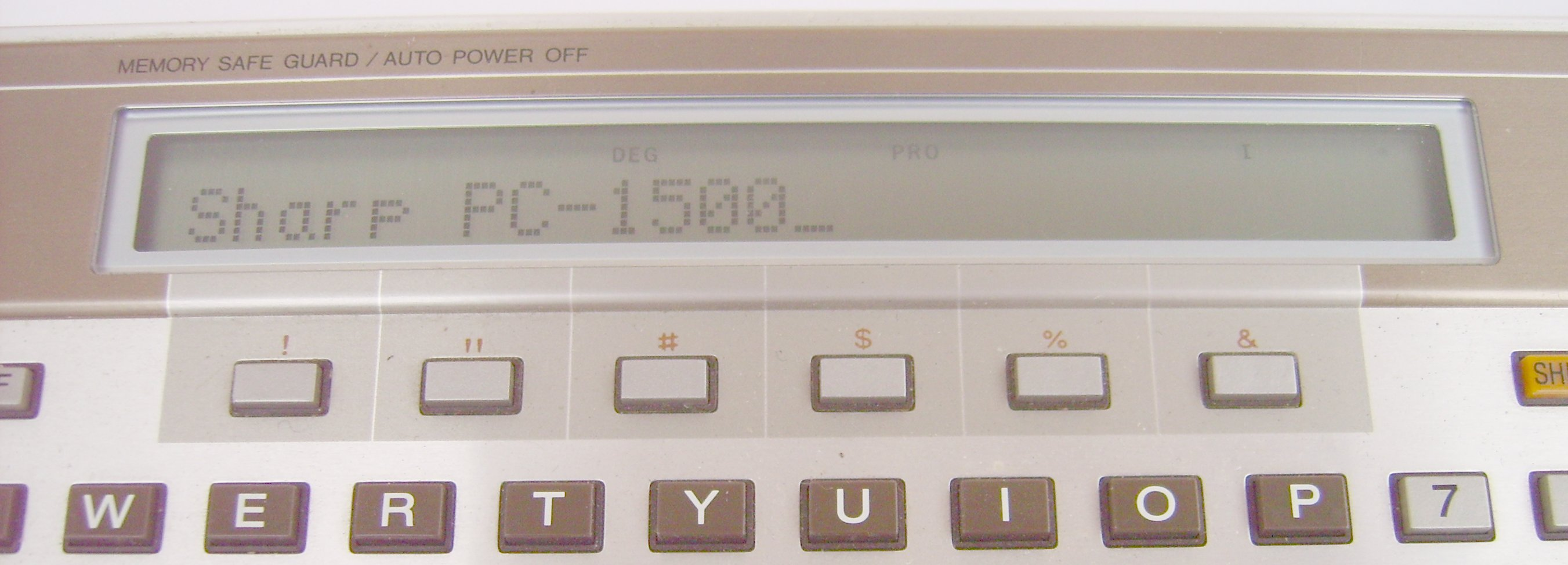 The LCD display of the Sharp PC-1500.